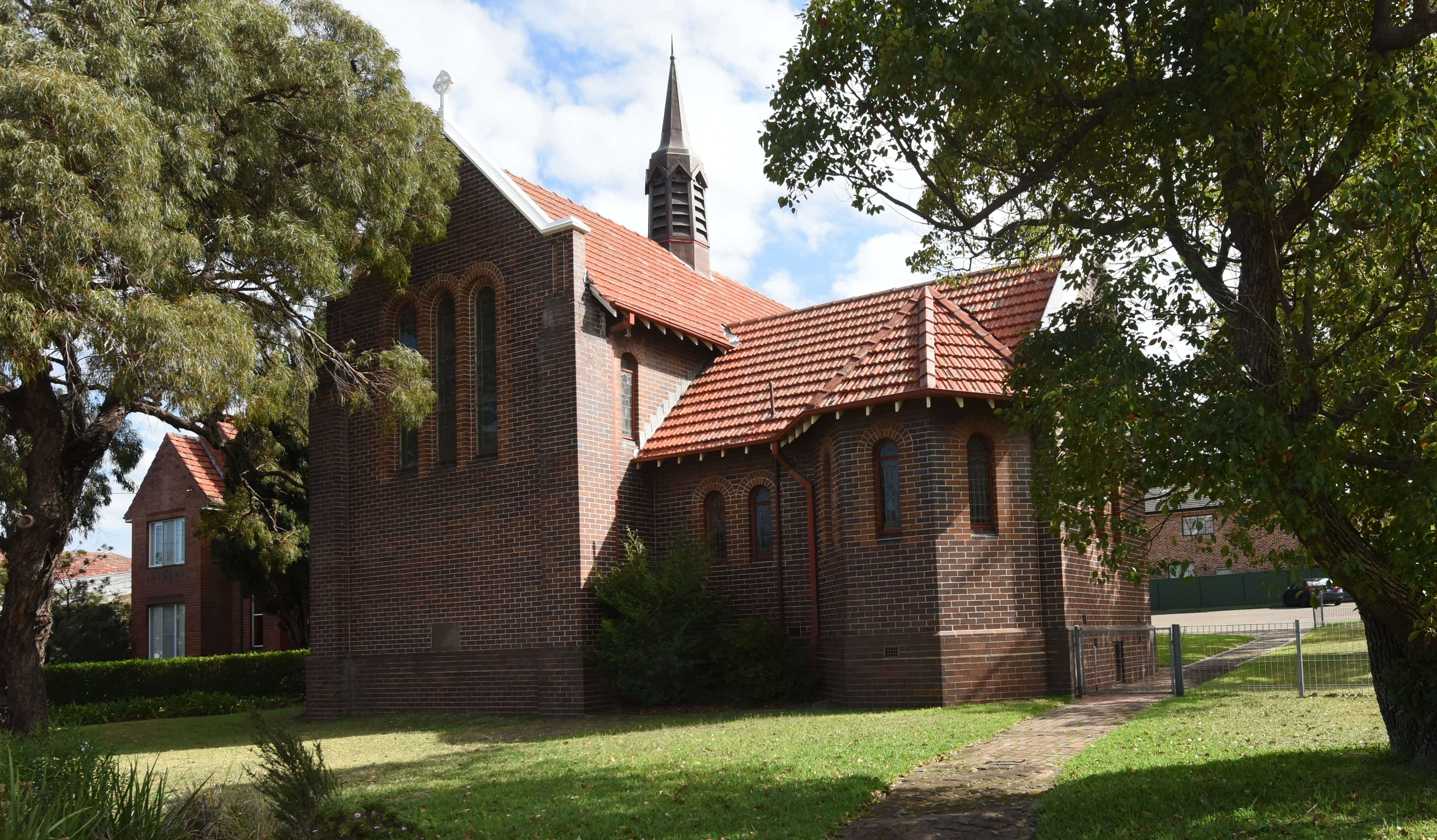 St Andrew's Anglican Church, Sans Souci, Sydney